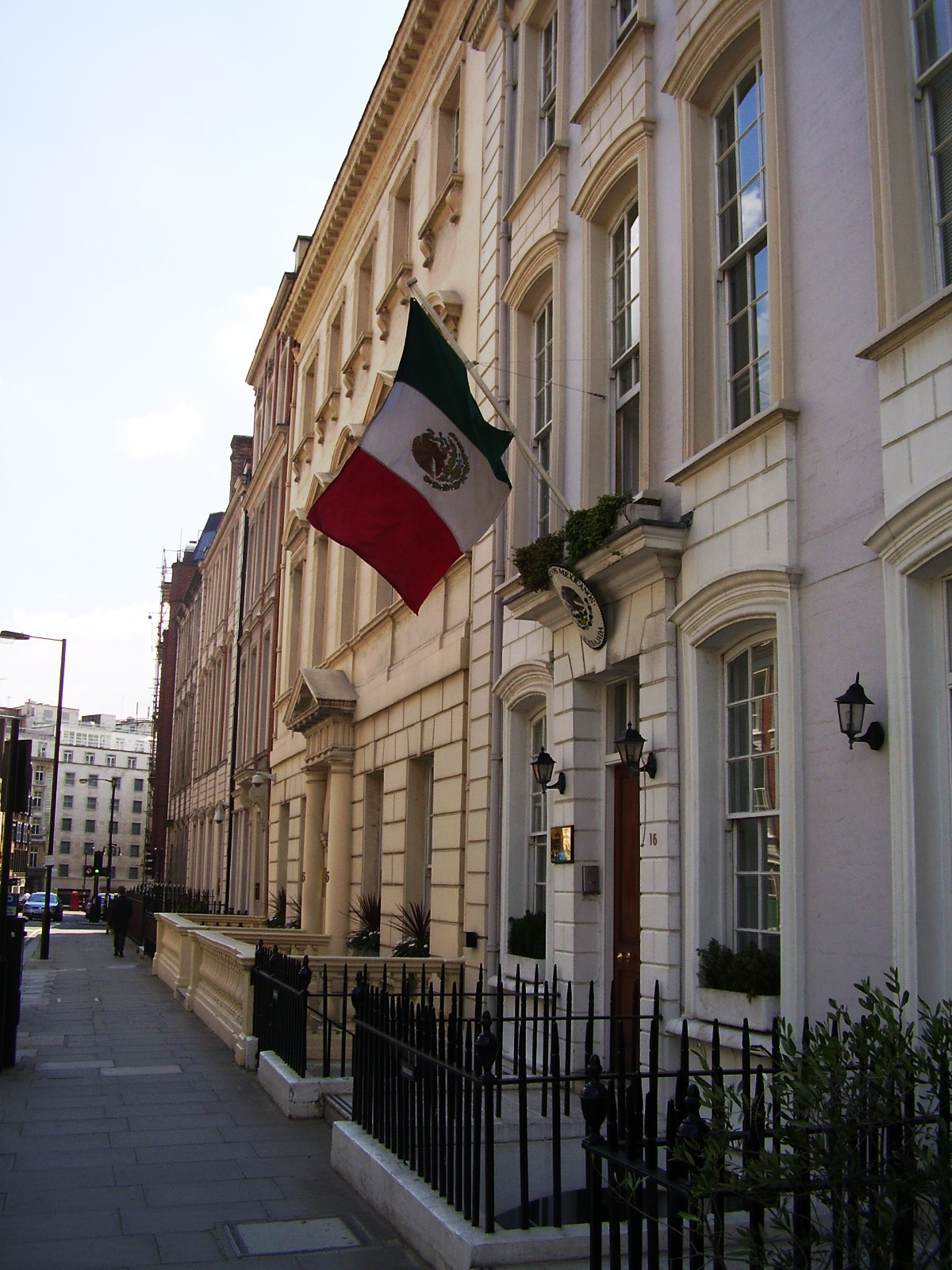 Embassy of Mexico in London Image by User:Barney Jenkins